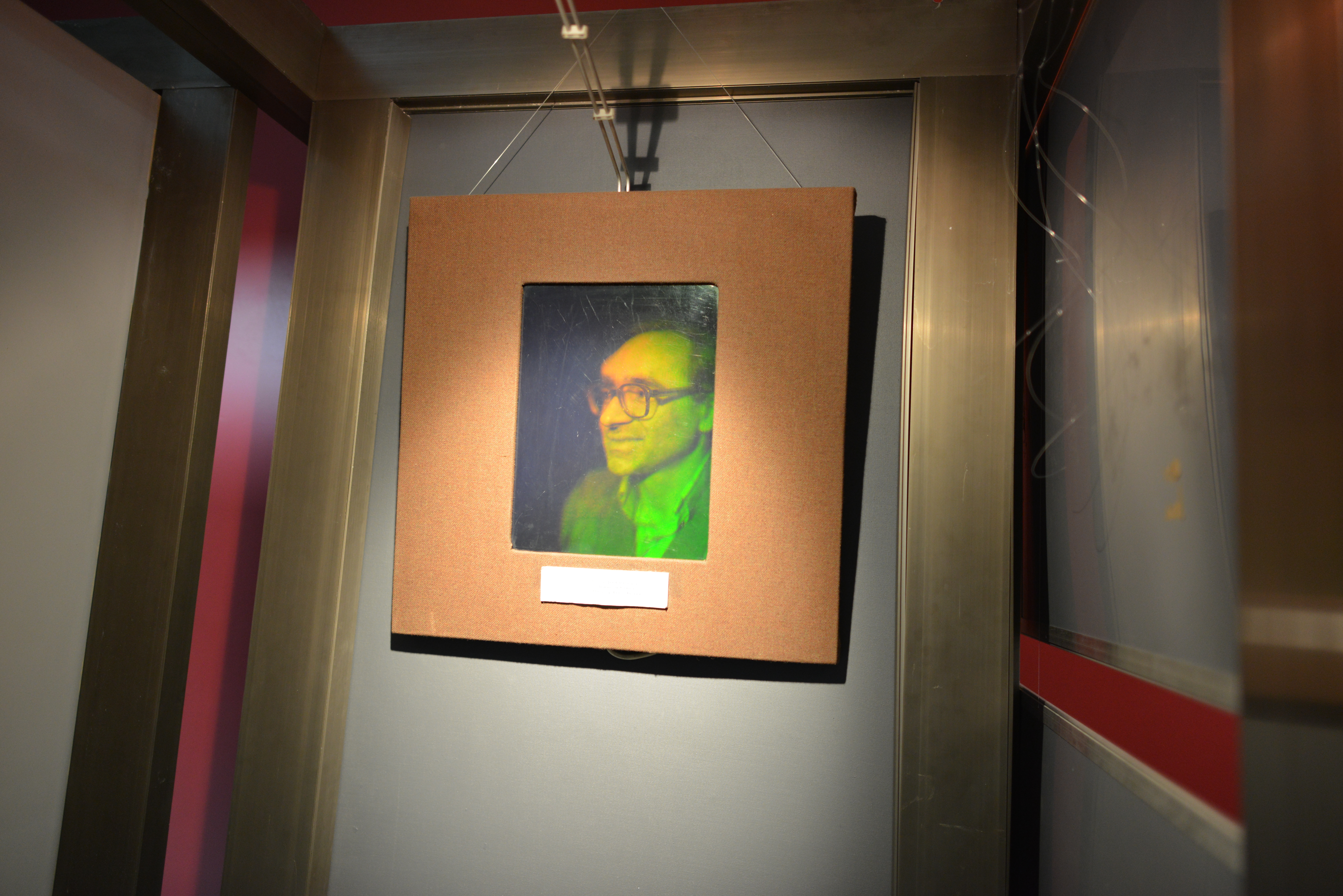 Holographic self-portrait. Ventseslav Saynov. Belgium, 1995. Exhibited at the National Polytechnic Museum, Sofia.